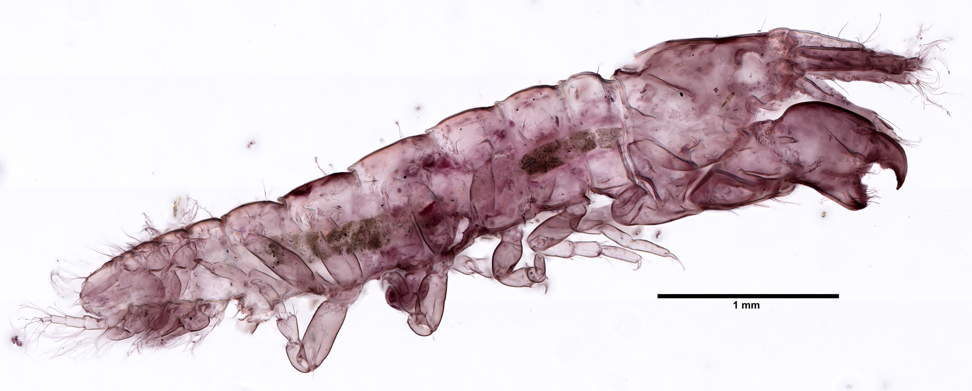 PRESERVED_SPECIMEN; ; ; microslide; ; CSBR Slide Grant Image 2015; IZ number 76906; lot count 1; Microslide 01, balsam, whole mount; Microslide 02, balsam, cheliped